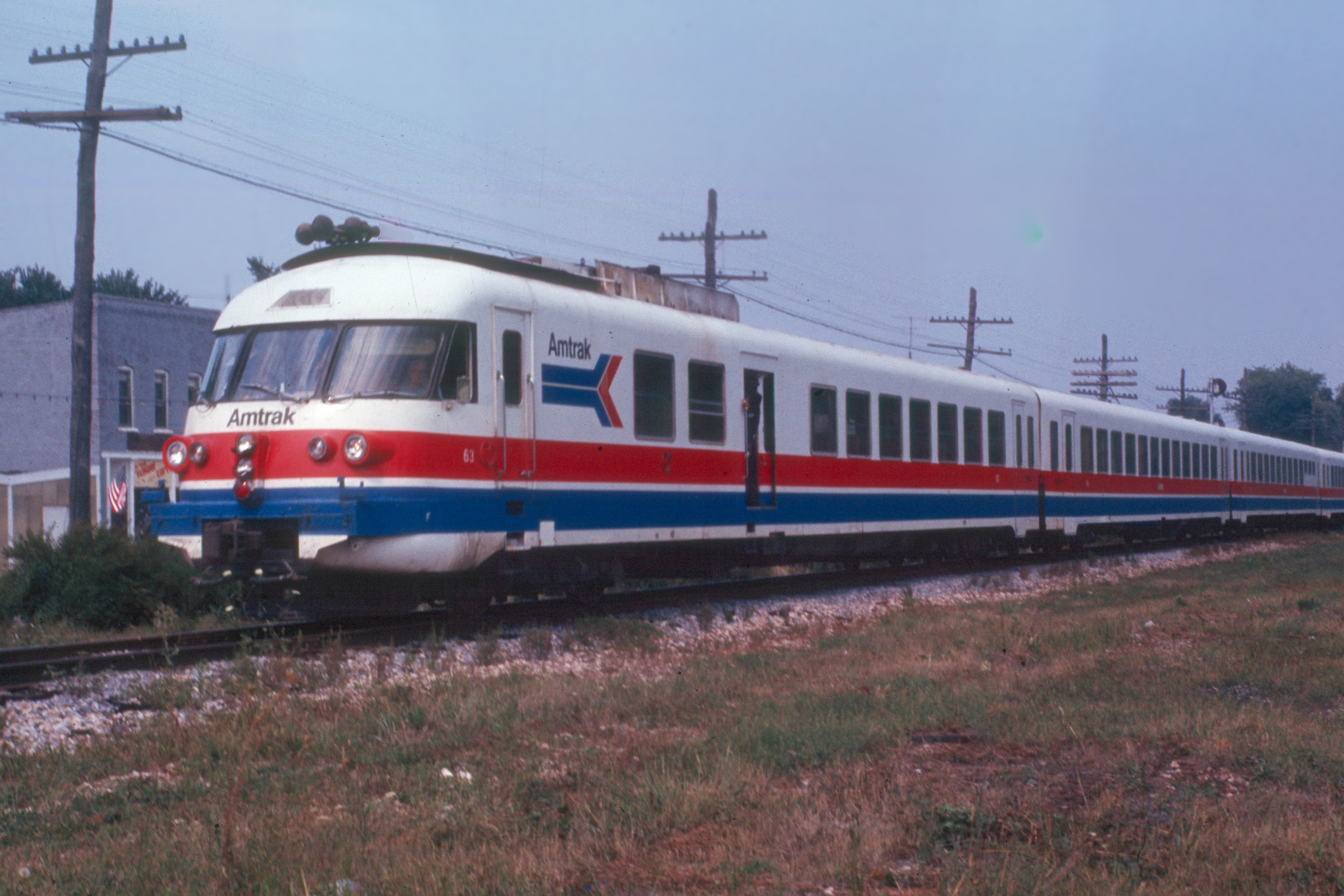 A westbound train - either the Blue Water or Turboliner - in Porter, Indiana in August 1976